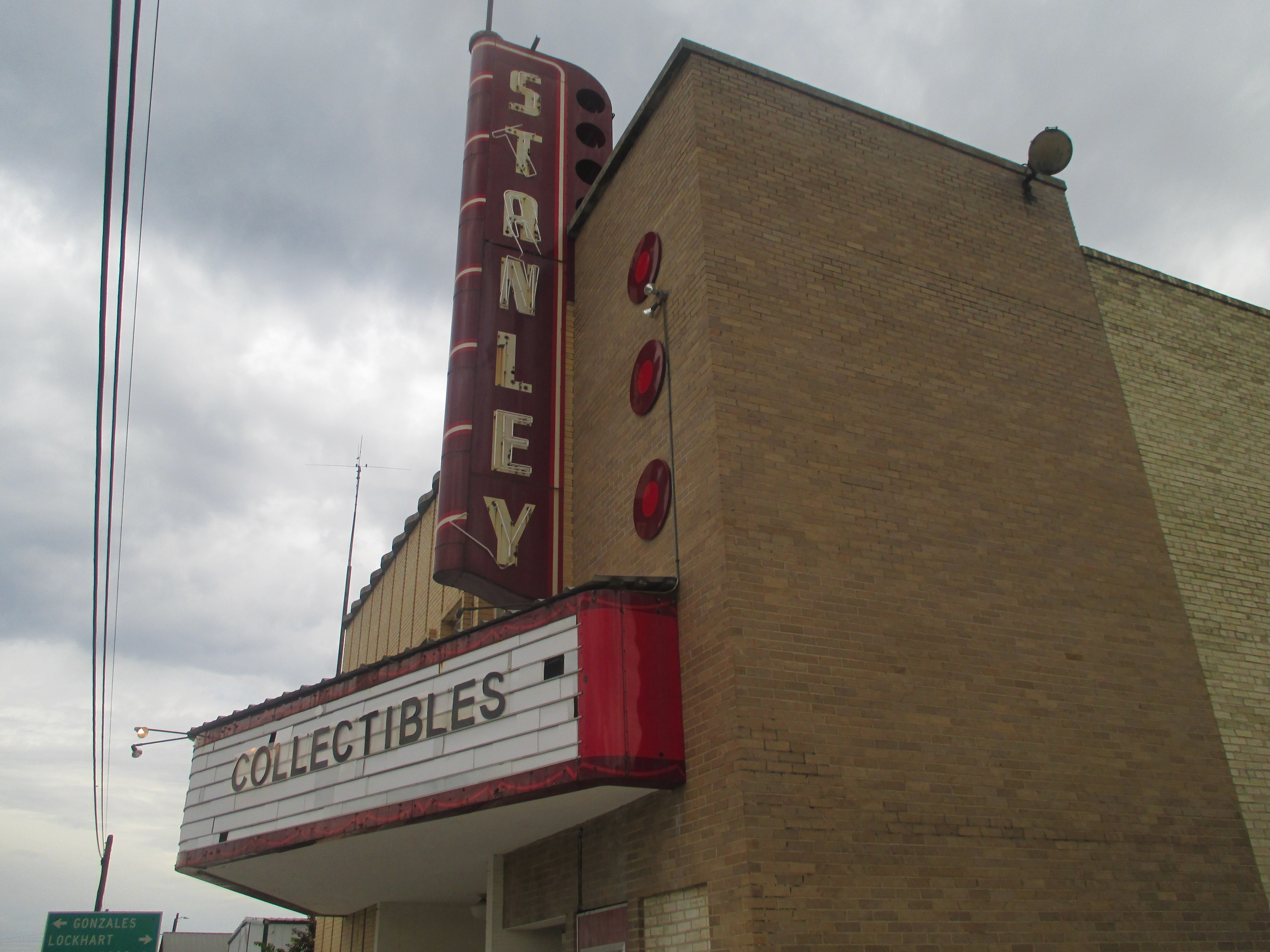 I took photo of Stanley Theatre in Luling, TX, with Canon camera.